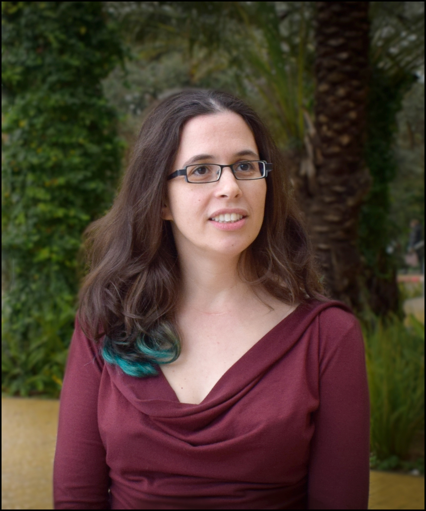 Dr. Keren Landsman